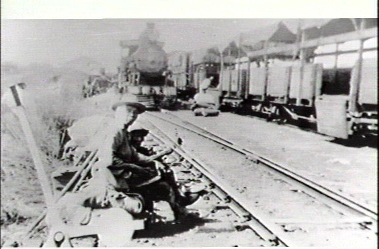 Refugees from Pine Creek at Birdum siding. March 19, 1942